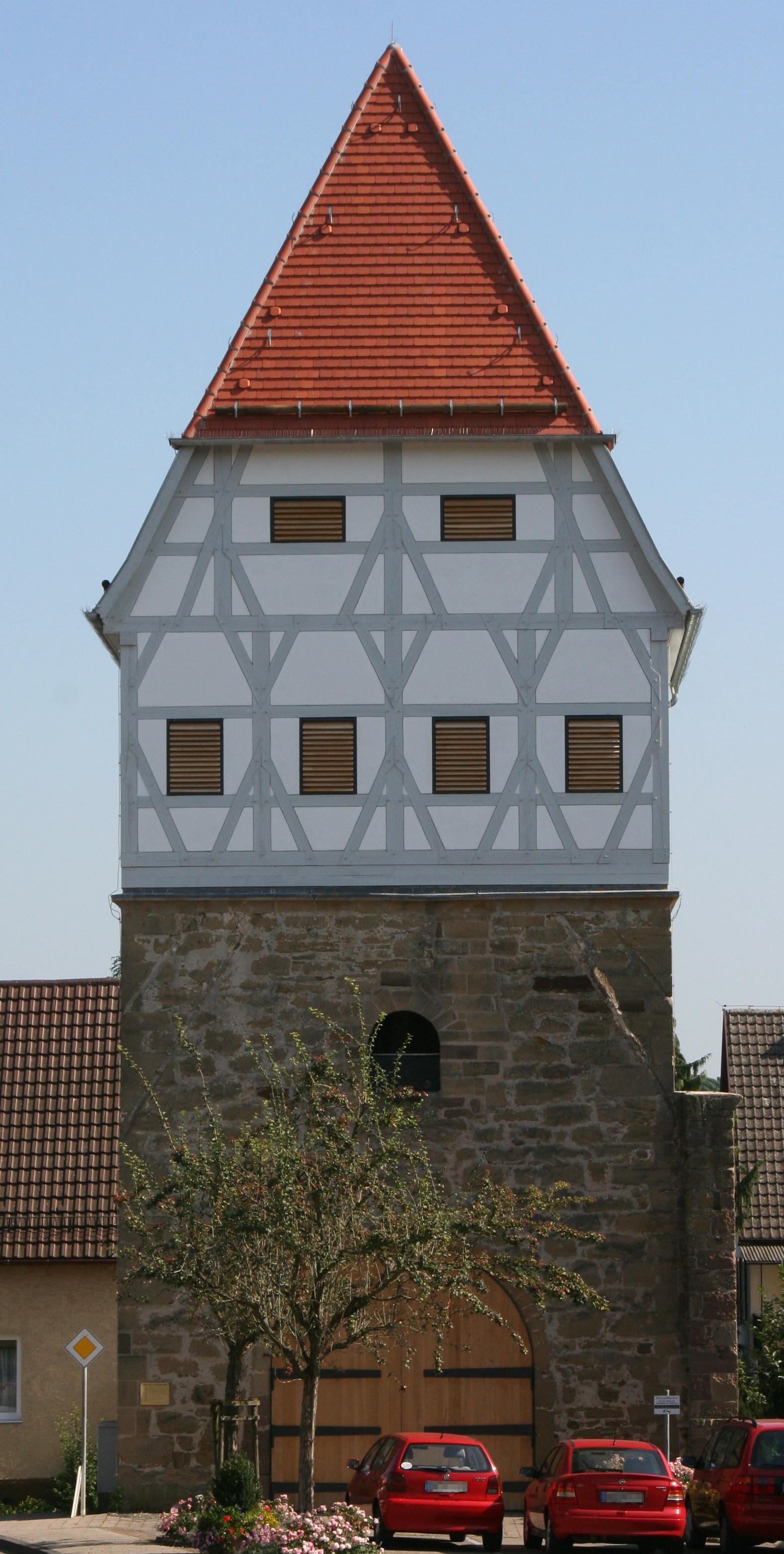 Fortified tower in Lehrensteinsfeld